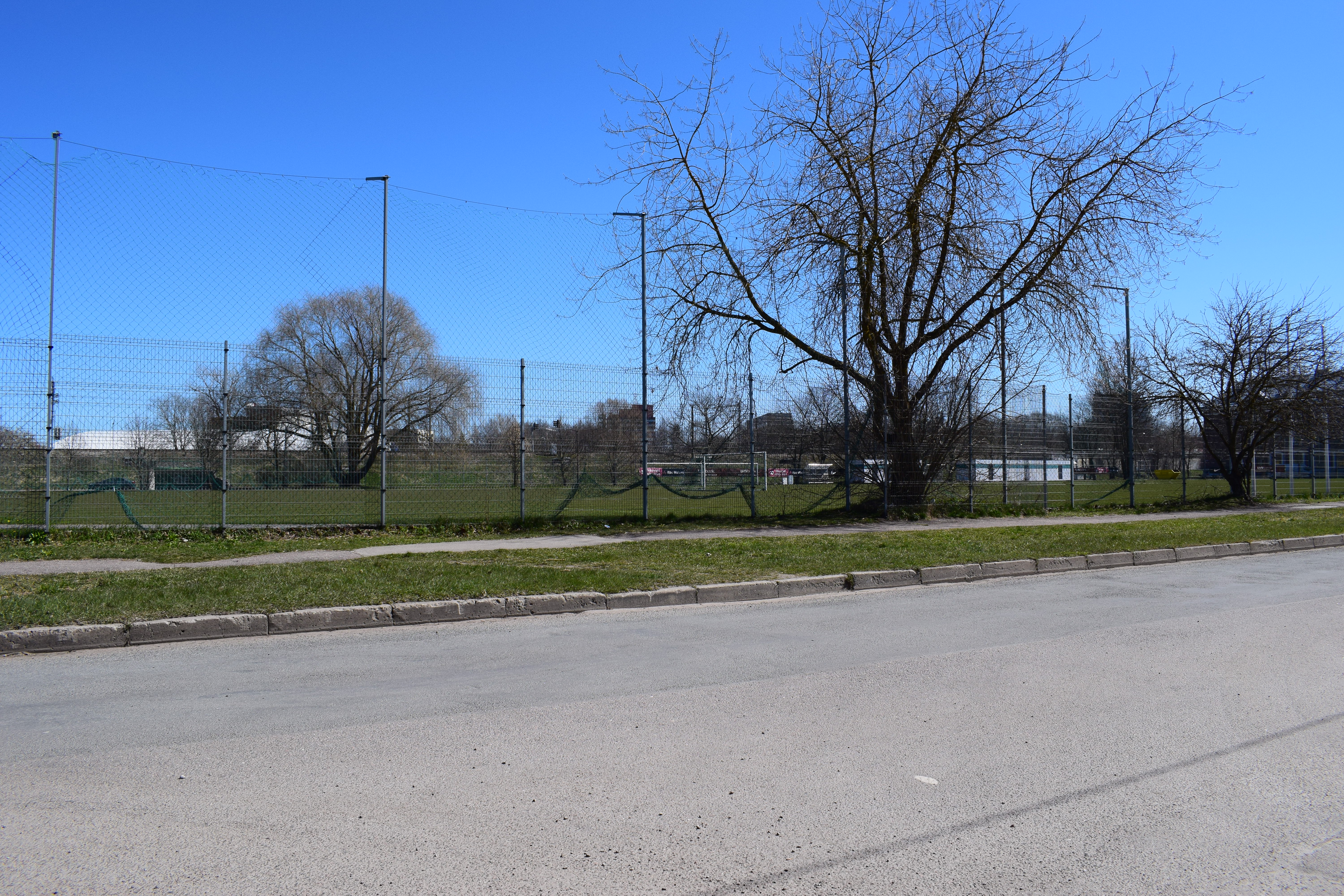 EJL Training Centre